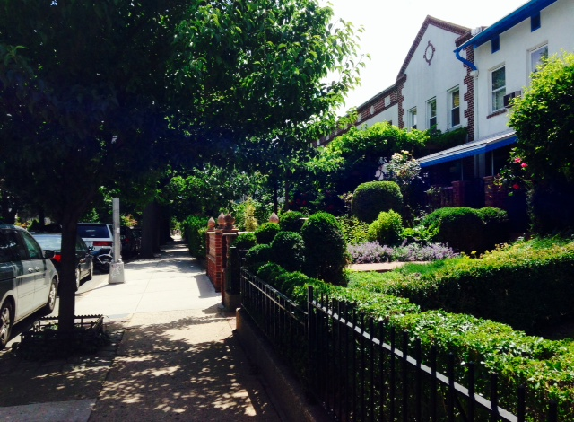 A residential street in Astoria, Queens